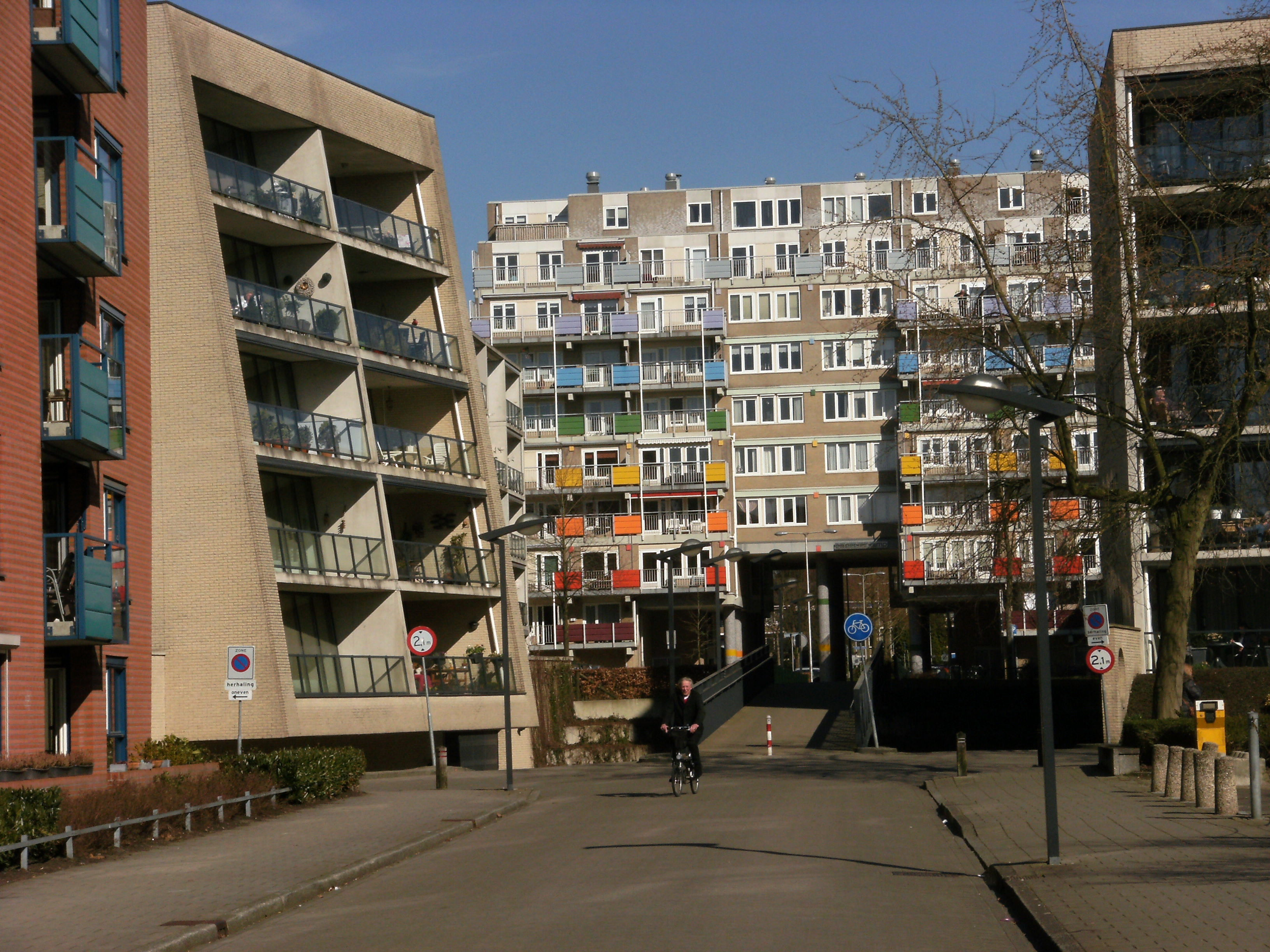 2013-04-07 in Enschede.